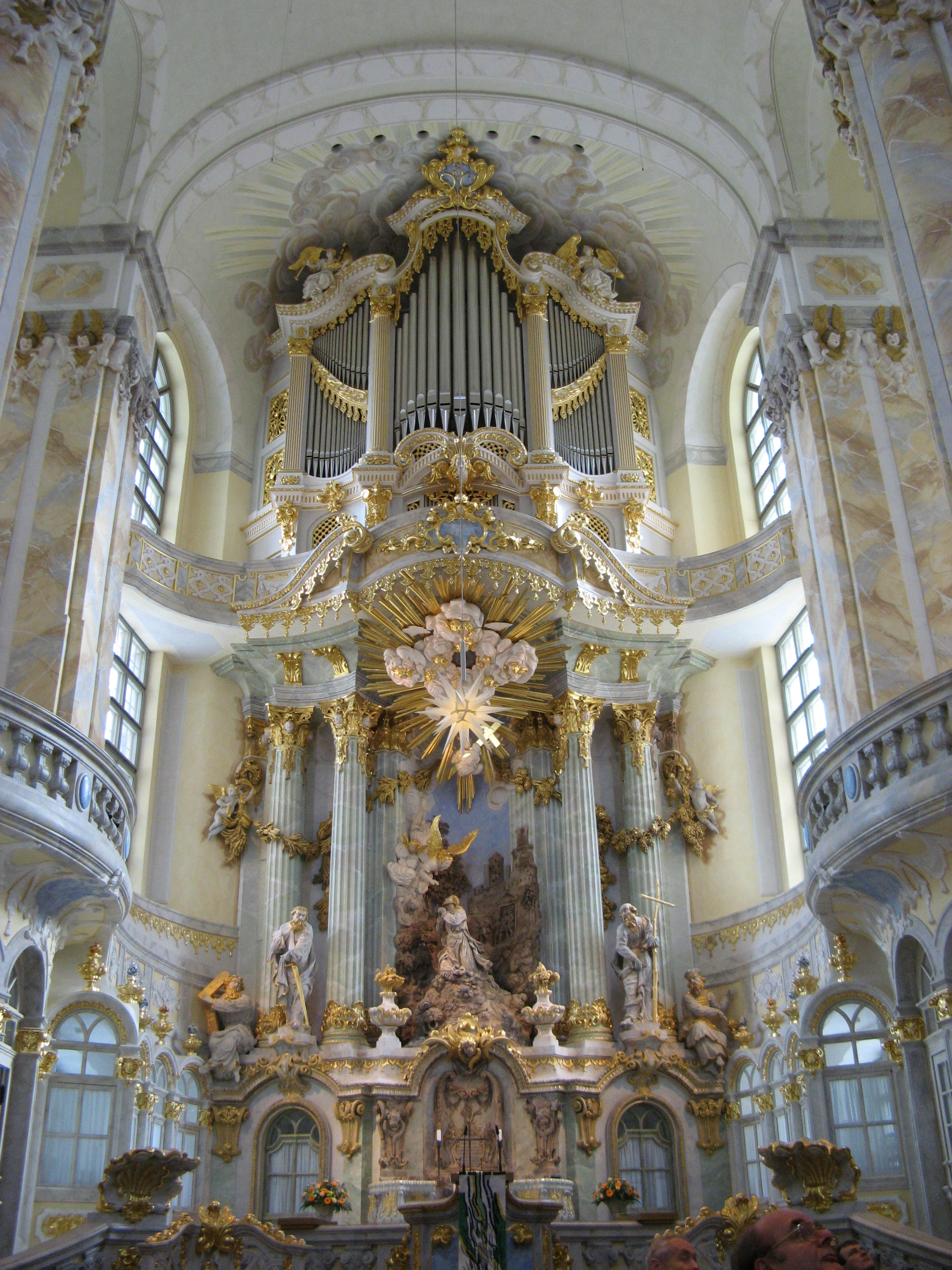 Organ in the Dresden Frauenkirche, rebuilt in 2005 by Daniel Kern behind a reconstruction of the original facade of the 1736 organ of Gottfried Silbermann